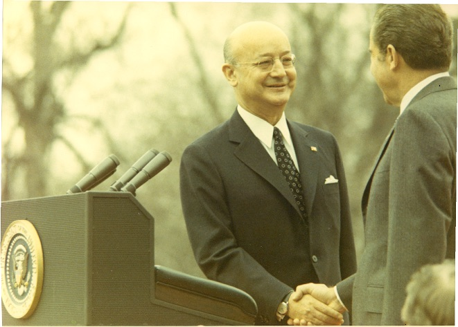 Official visit 1972.